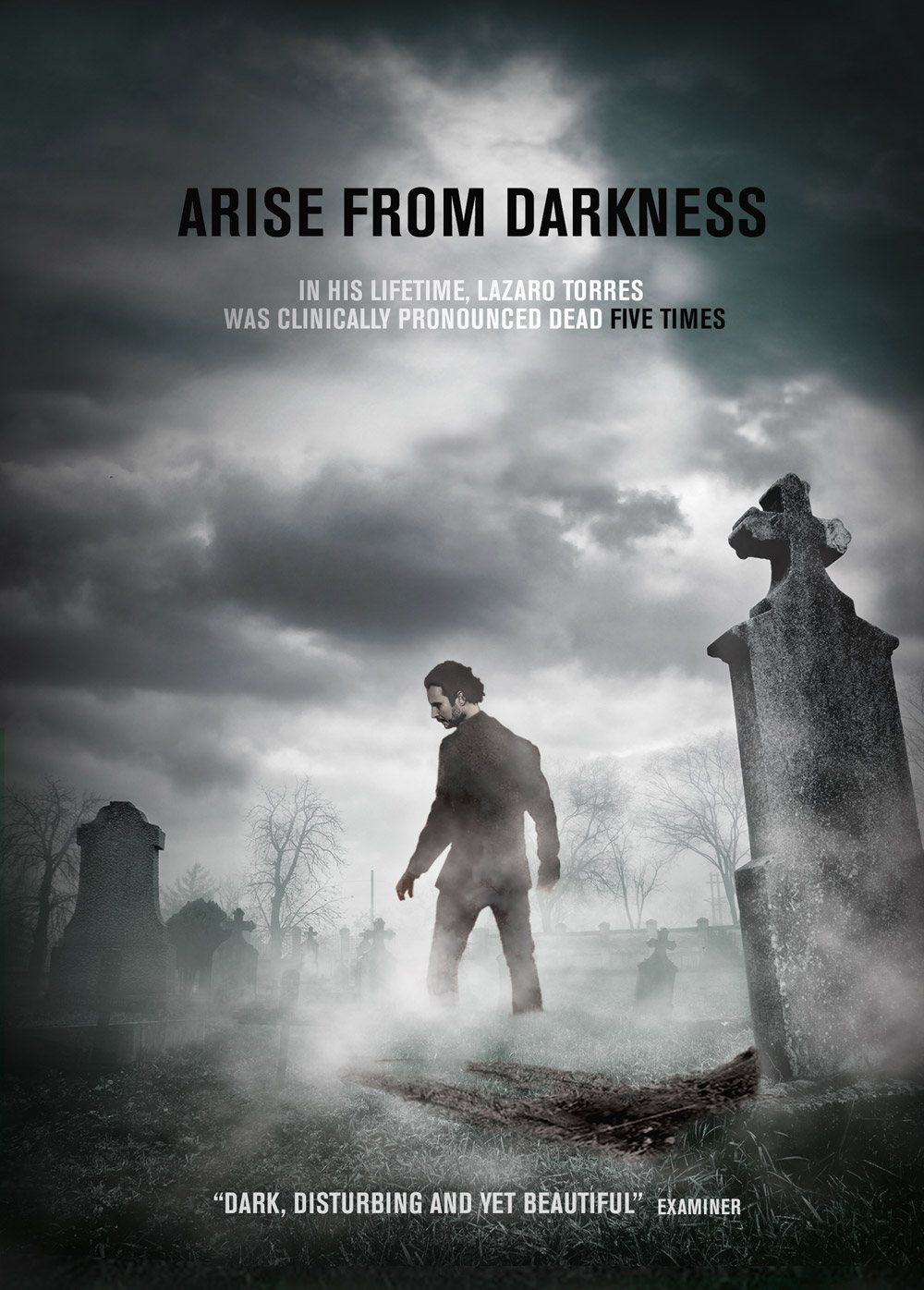 Cover poster